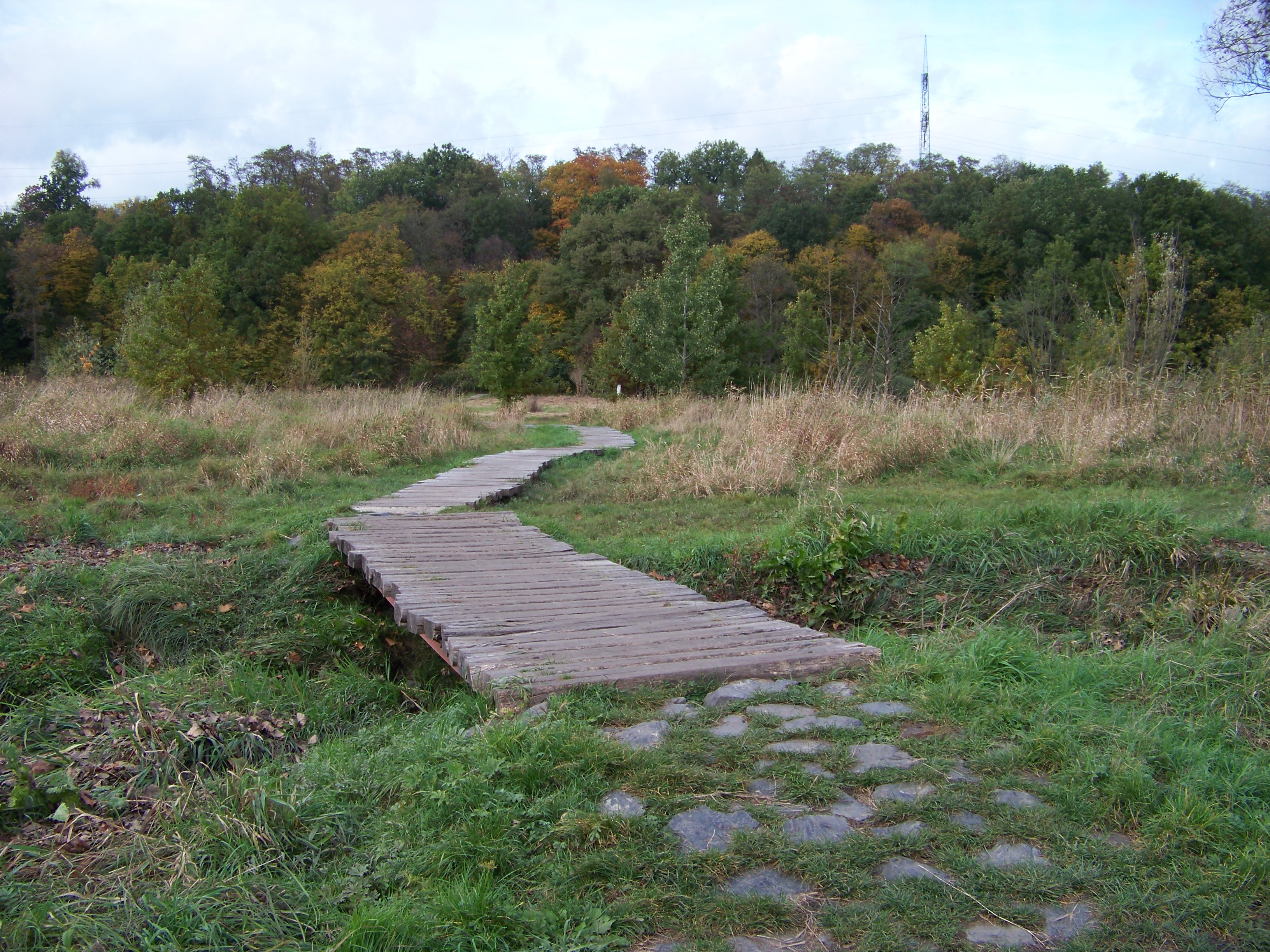 Prague-Hostavice and Kyje, Czech Republic. A meadow with 3 creeks, a footbridge over the Hostavický potok, Horka hill.